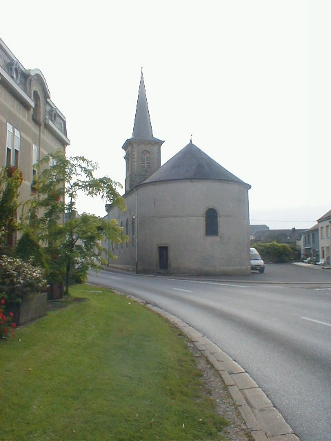 Church of Houdemont. Houdemont, Habay, Luxembourg, Belgium Walon: Eglijhe di Hoûlmont.